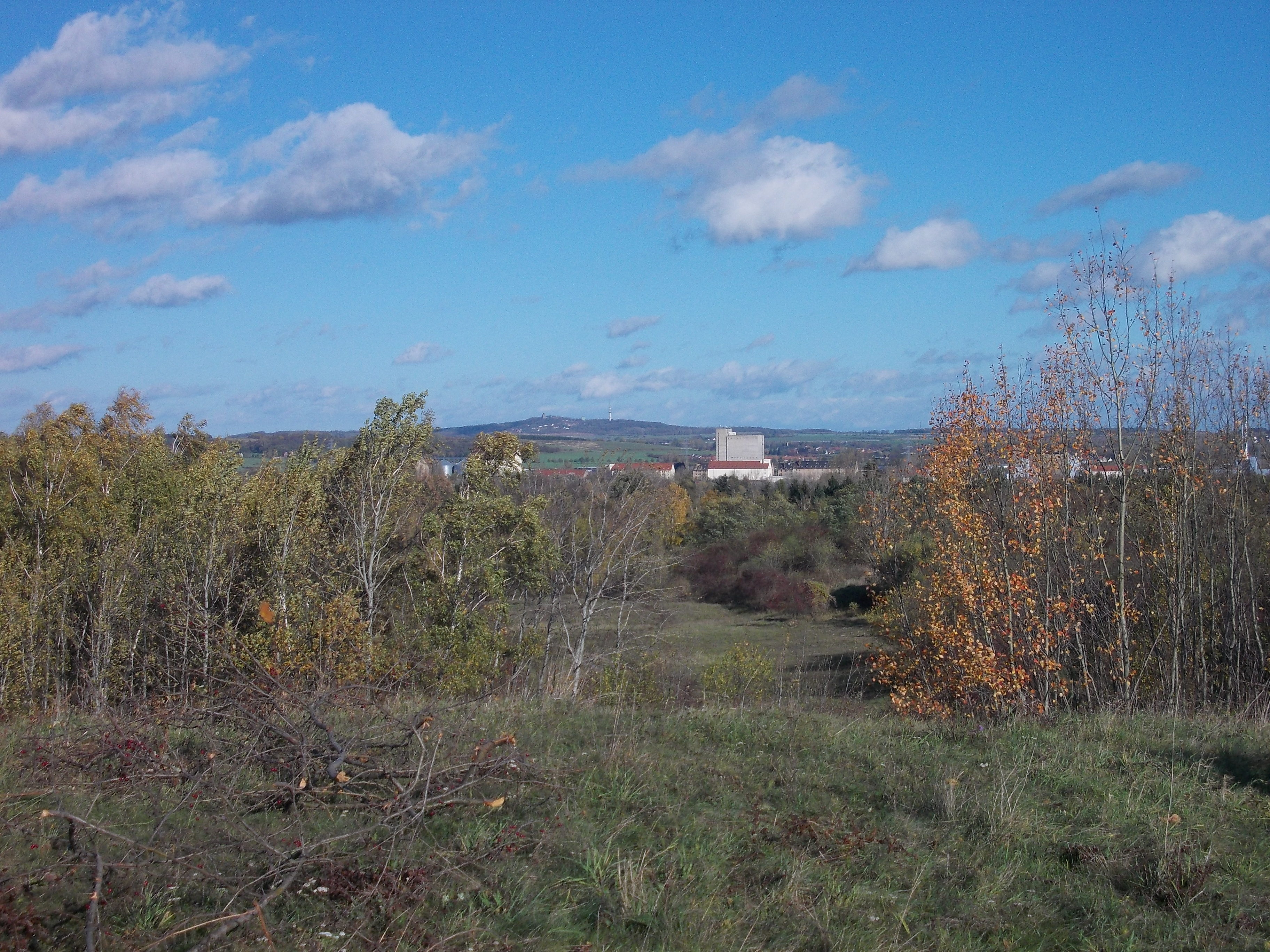 View from Brandberge hills in Halle/Saale (Saxony-Anhalt) with Petersberg hill in the background